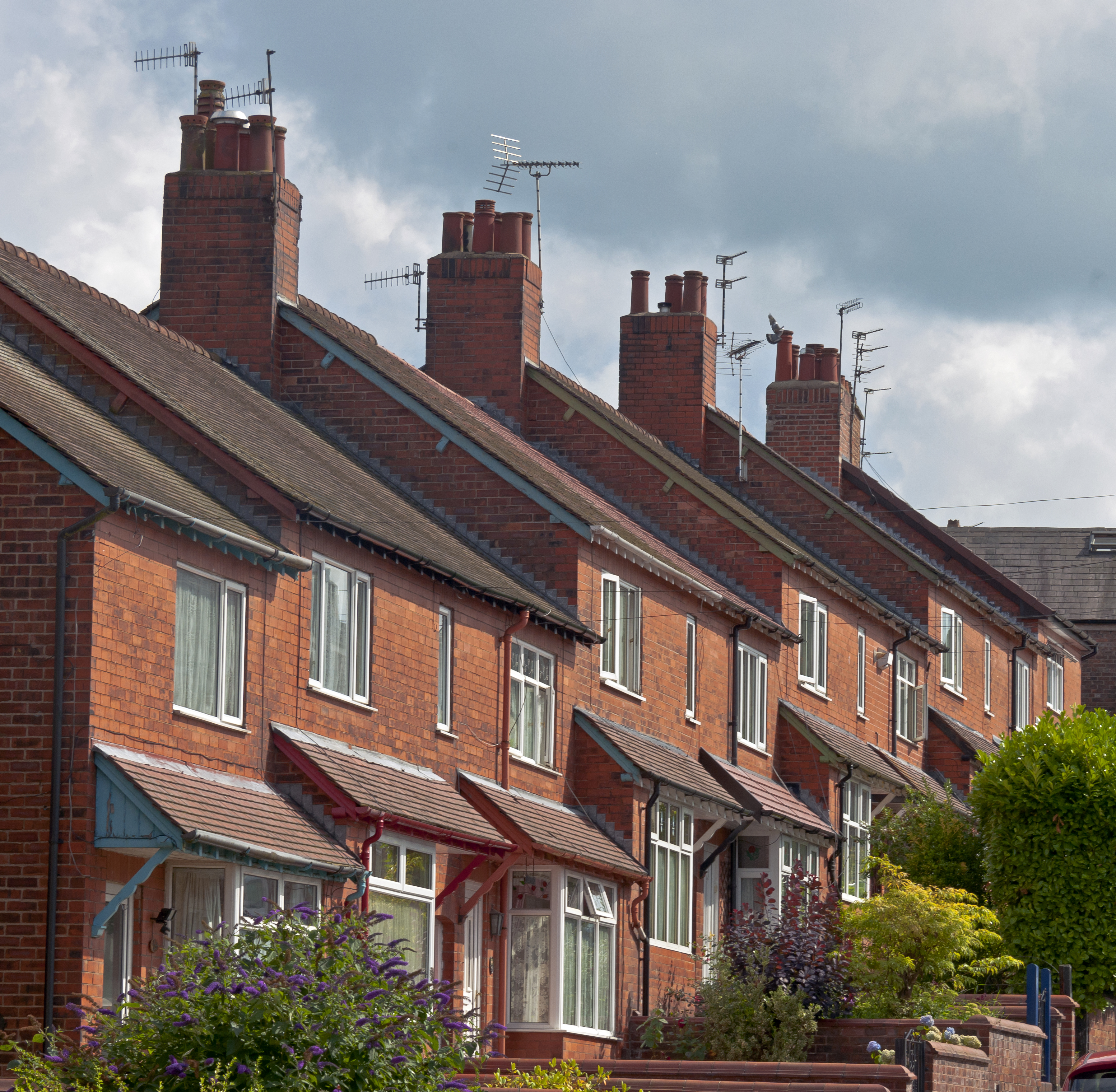 Terraced houses on the east side of the north end of Newton Street in Macclesfield